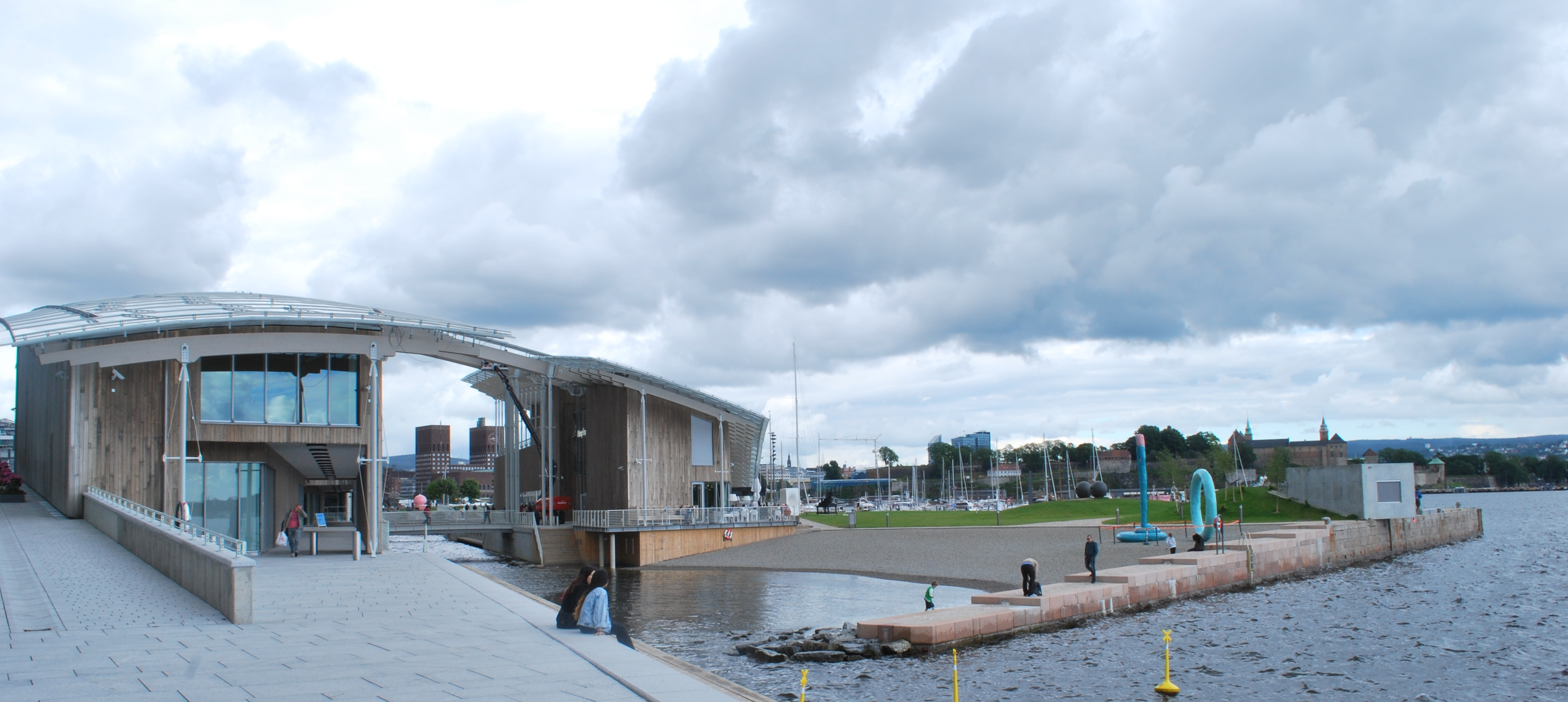 Tjuvholmen neighborhood, Oslo, Astrup Fearnley Art Museum and the Beach, Oslo Town Hall behind the museum, Akershus Fortress to the right